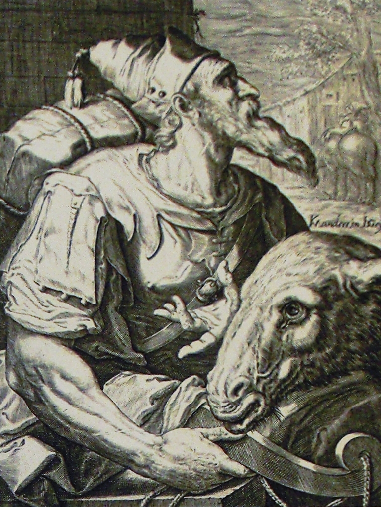 A print from the Phillip Medhurst Collection of Bible illustrations in the possession of Revd. Philip De Vere at St. George’s Court, Kidderminster, England.